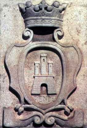 Stemma Comune di Rende Description: The three towers of the castle - seal of Rende Source: :it:Immagine:Tretorri.JPG